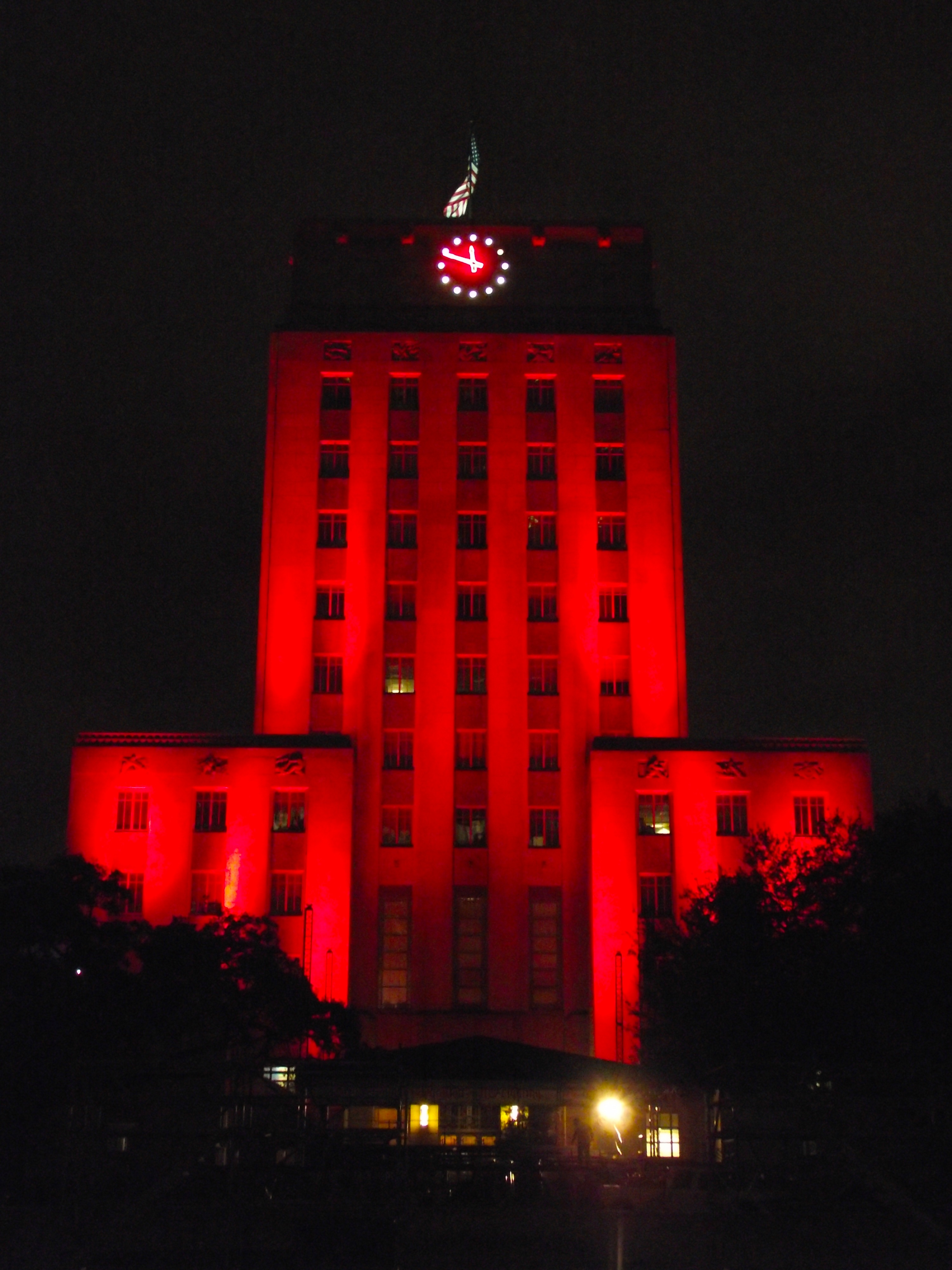 Houston City Hall illuminated with the color red in honor of the 2011 Houston Cougars football team after completing their regular season with an undefeated record and obtaining their conference division title. The color scarlet red is the University of Houston's primary color along with albino white.